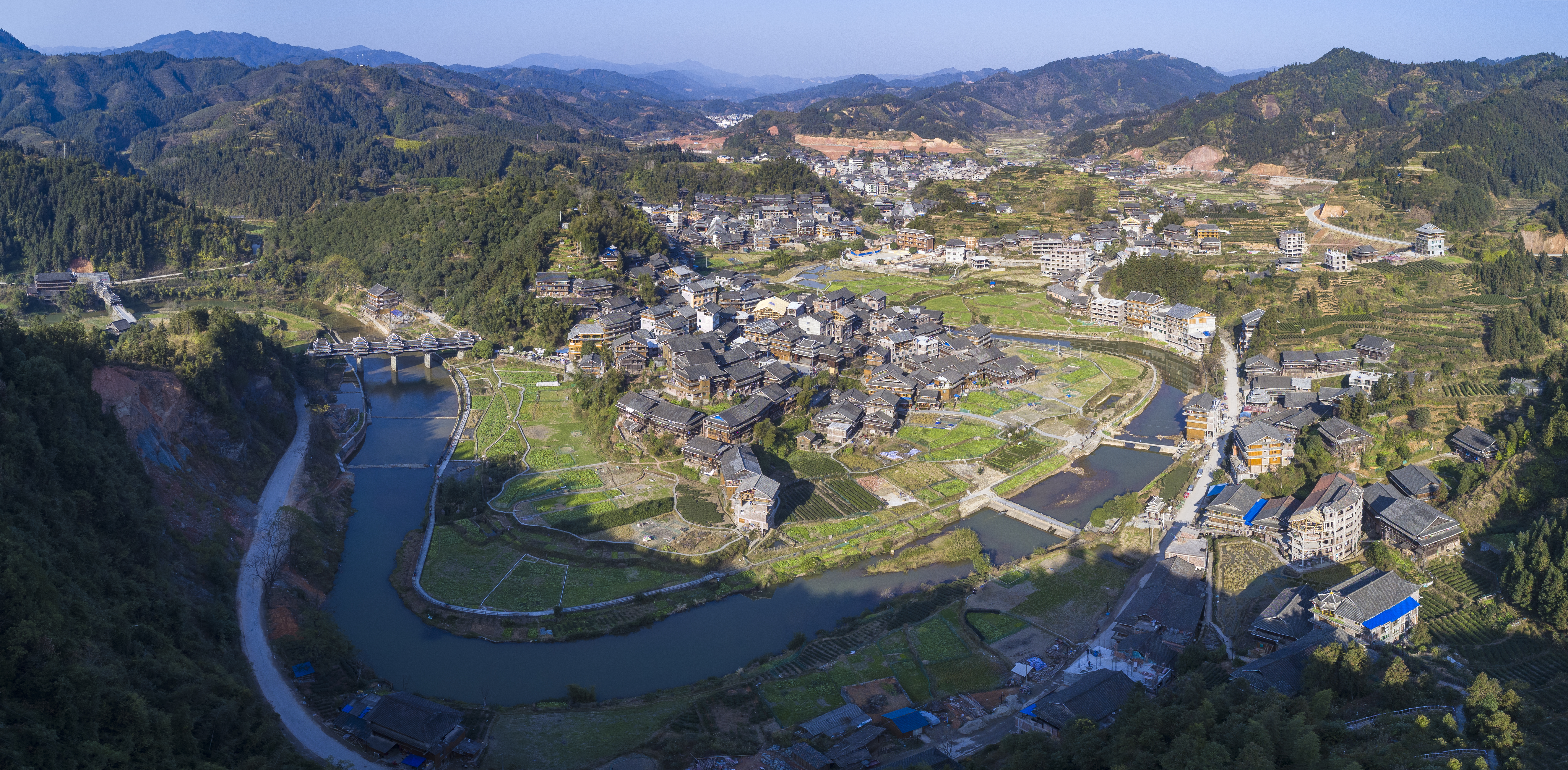 aerial panorama sanjiang dong village guizhou guangxi hunan 2017